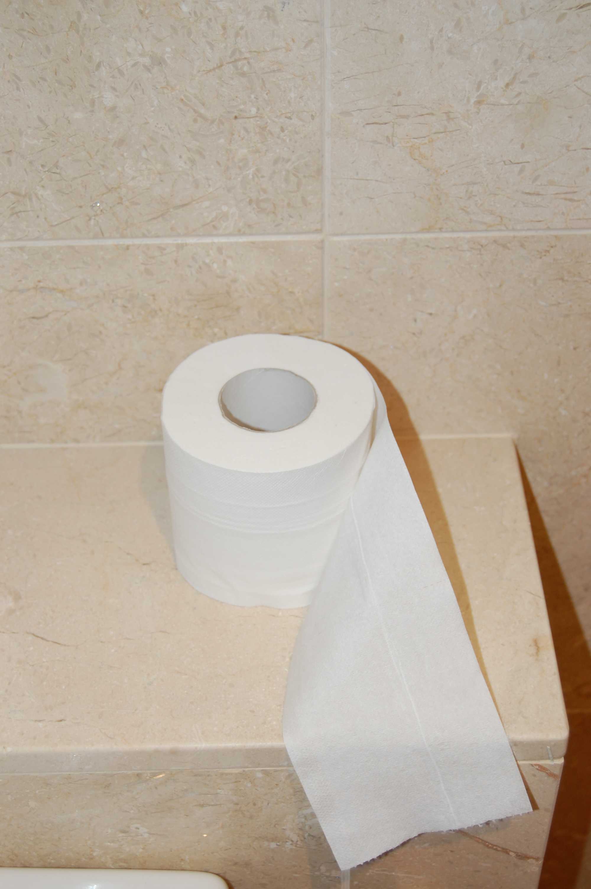 Toilet paper roll